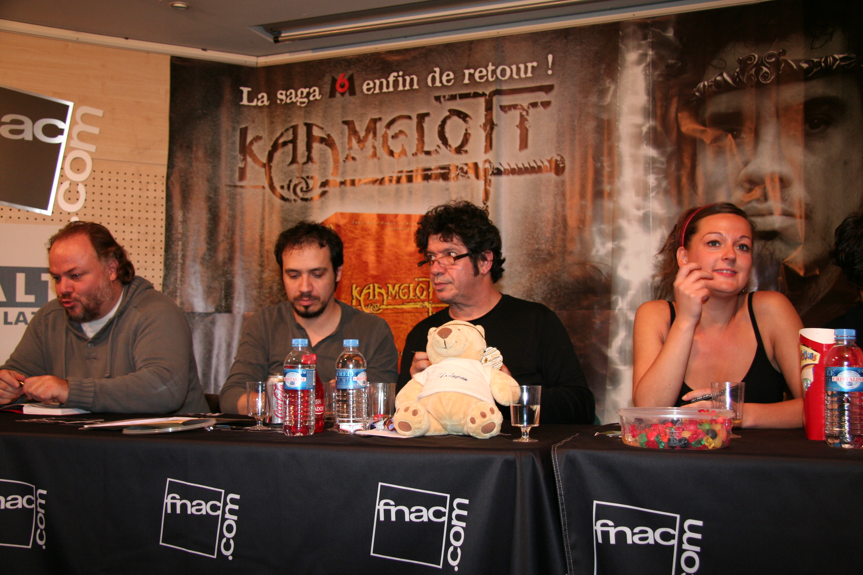 Rendezvous with the actors of the television serie Kaamelott at Fnac Saint-Lazare (Paris, France).